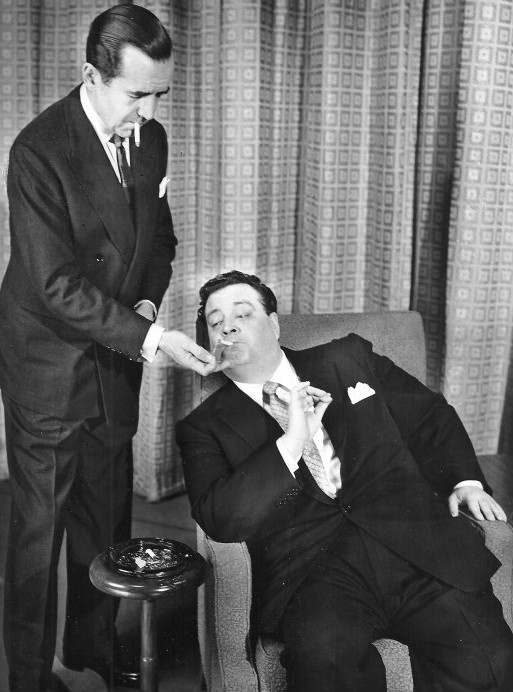 Photo of Edward R. Murrow and Jackie Gleason when Gleason was the subject of Murrow's Person to Person interview program in 1956.